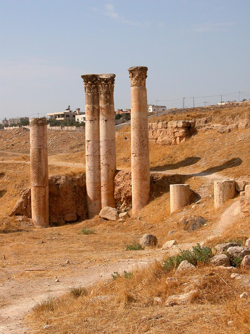 The columns at the back left corner of the Temple of Artemis have about 2/3 showing. Jerash, Jordan